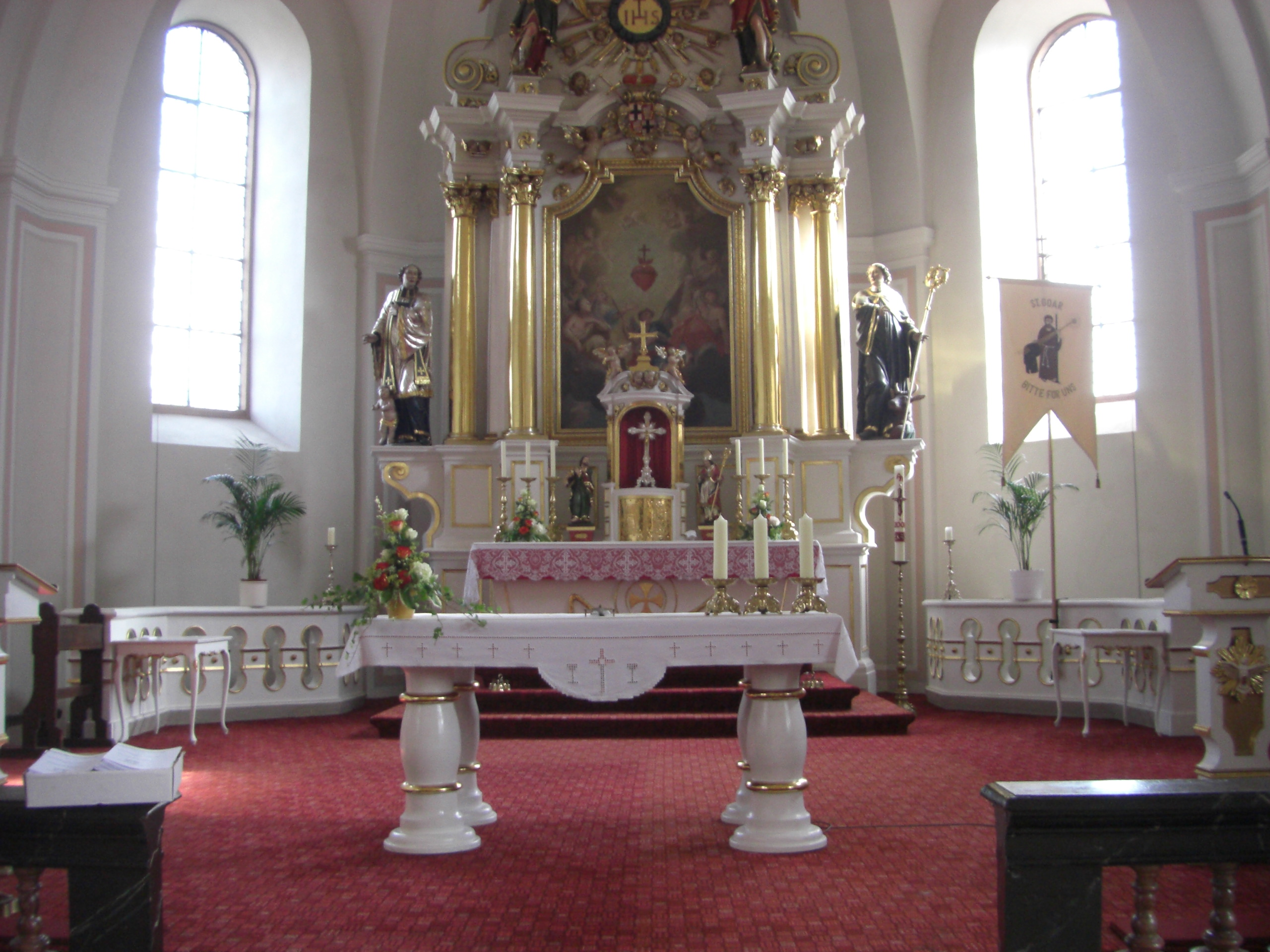 High altar in the catholic church St. Goar, Flieden.